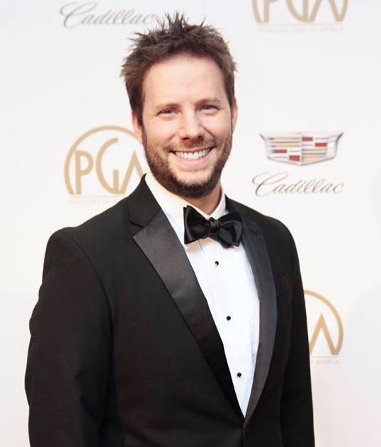 Eric Miller at the 27th Producers Guild Awards